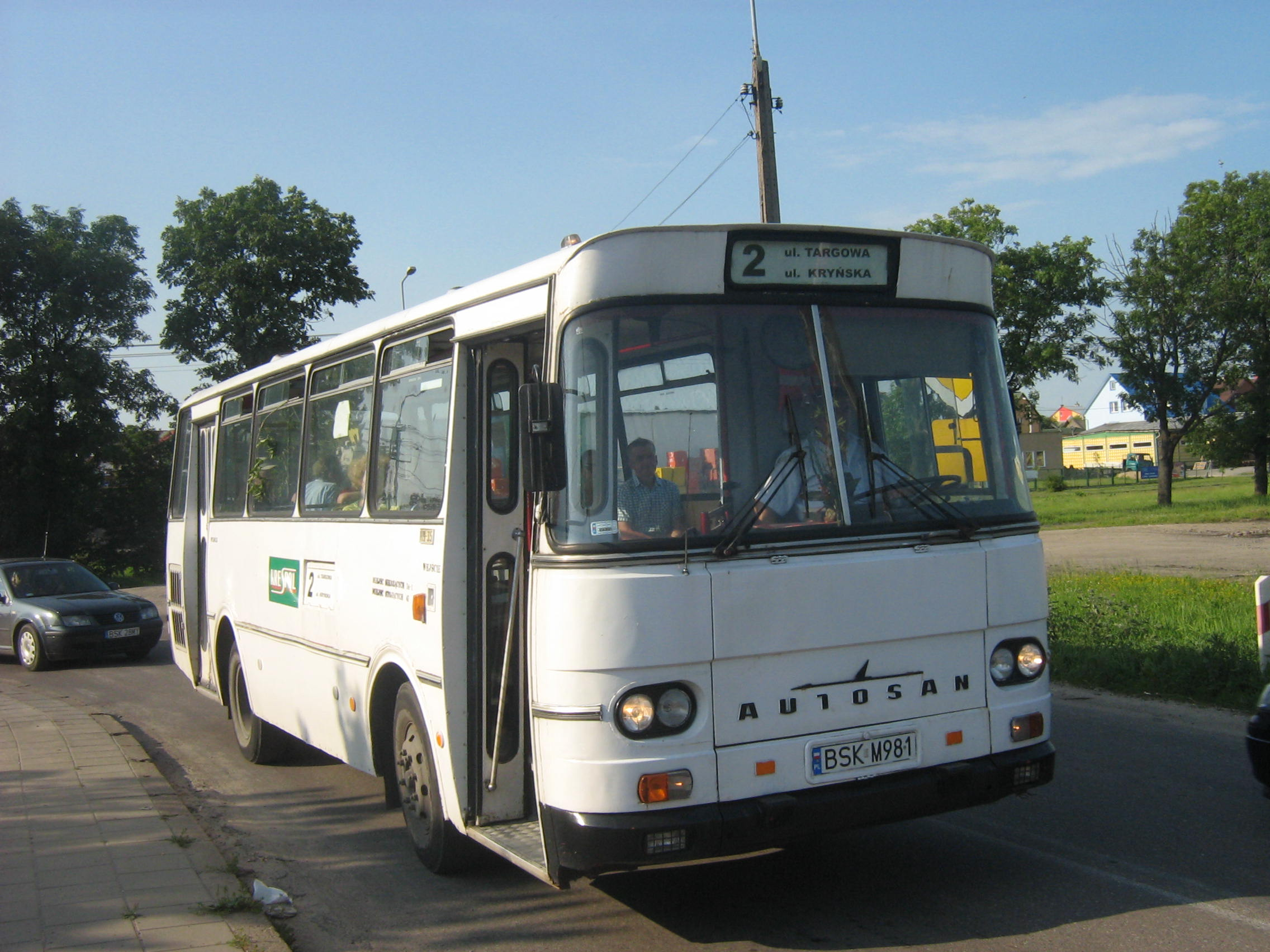 Autosan H9-35 city bus (#012) in Sokółka, Poland. Krespol Sokółka operator.